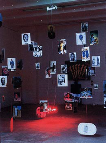 Installation shot of Zelbst, part of the larger exhibition, Nothing Gets Lost in The Universe